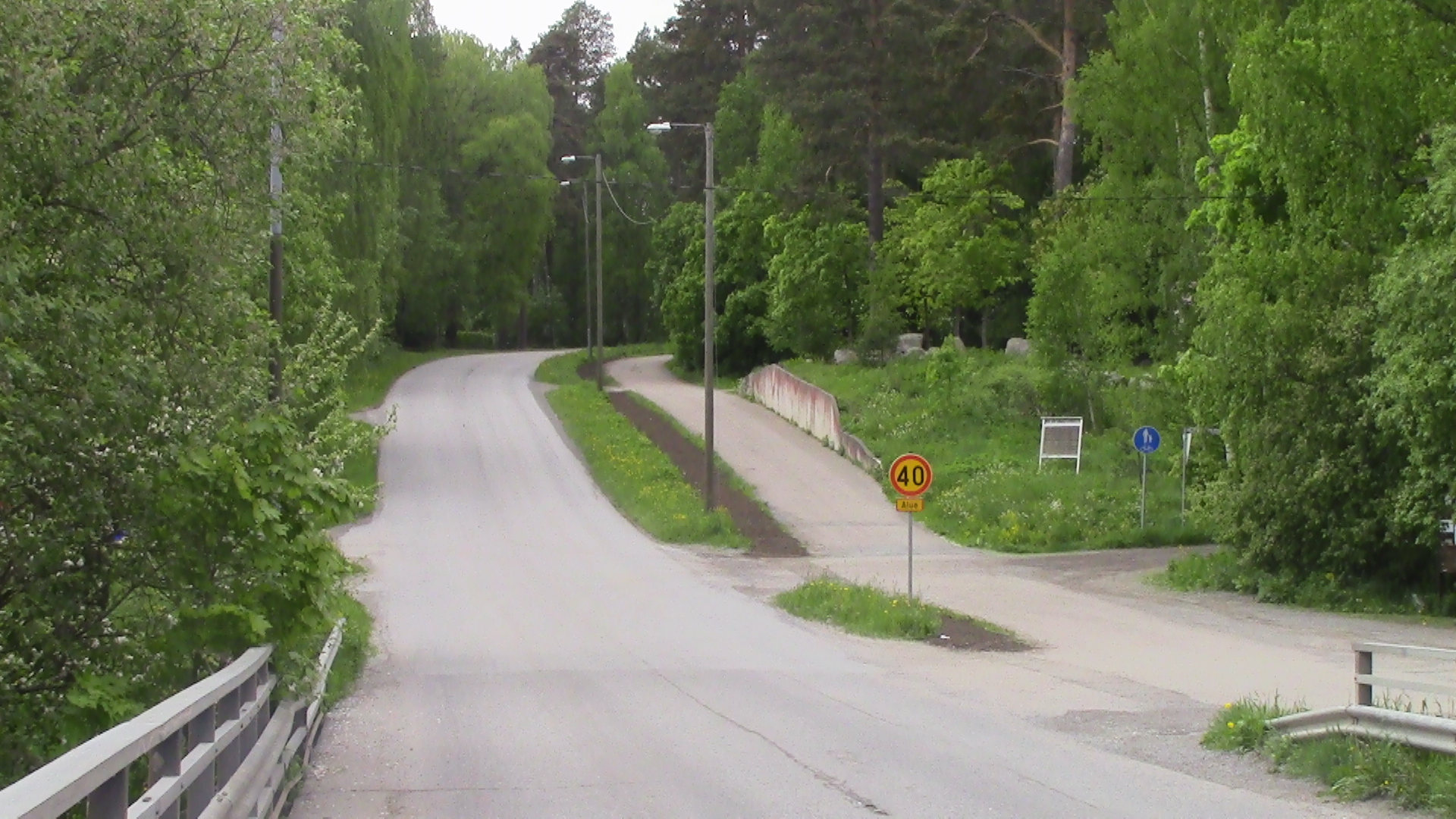 Finnish connecting road 2505 at the village of Siuro in Nokia. The road runs from Nokia to Karkku.